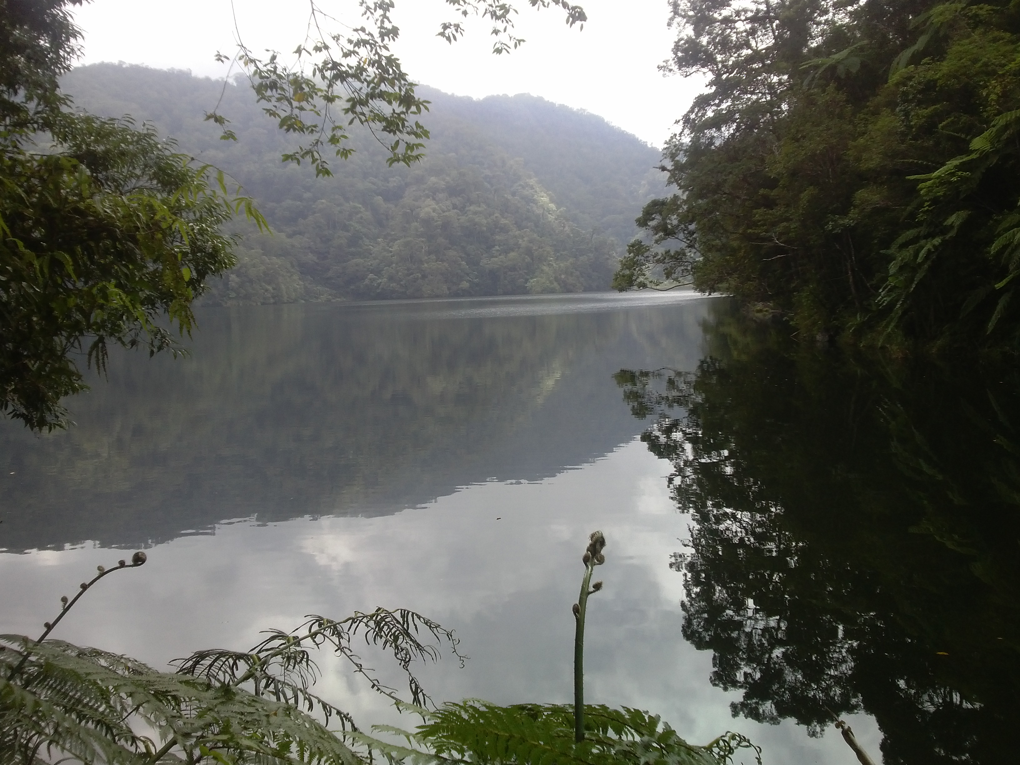 Lake Danao is the second and smaller of the two lakes in the eponymous Twin Lakes National Park near Bais City in the Philippines